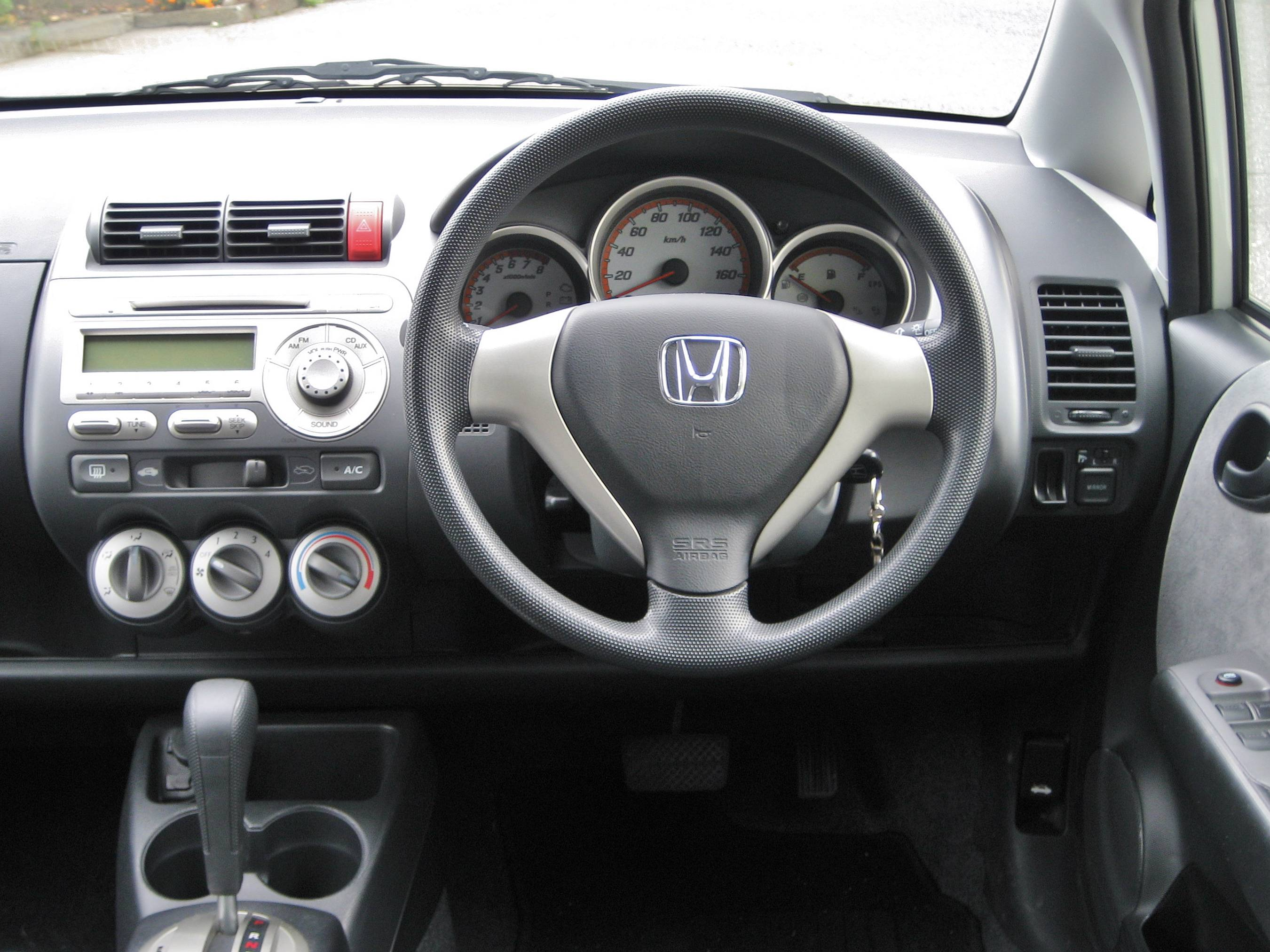 1st gen Honda Fit cockpit.